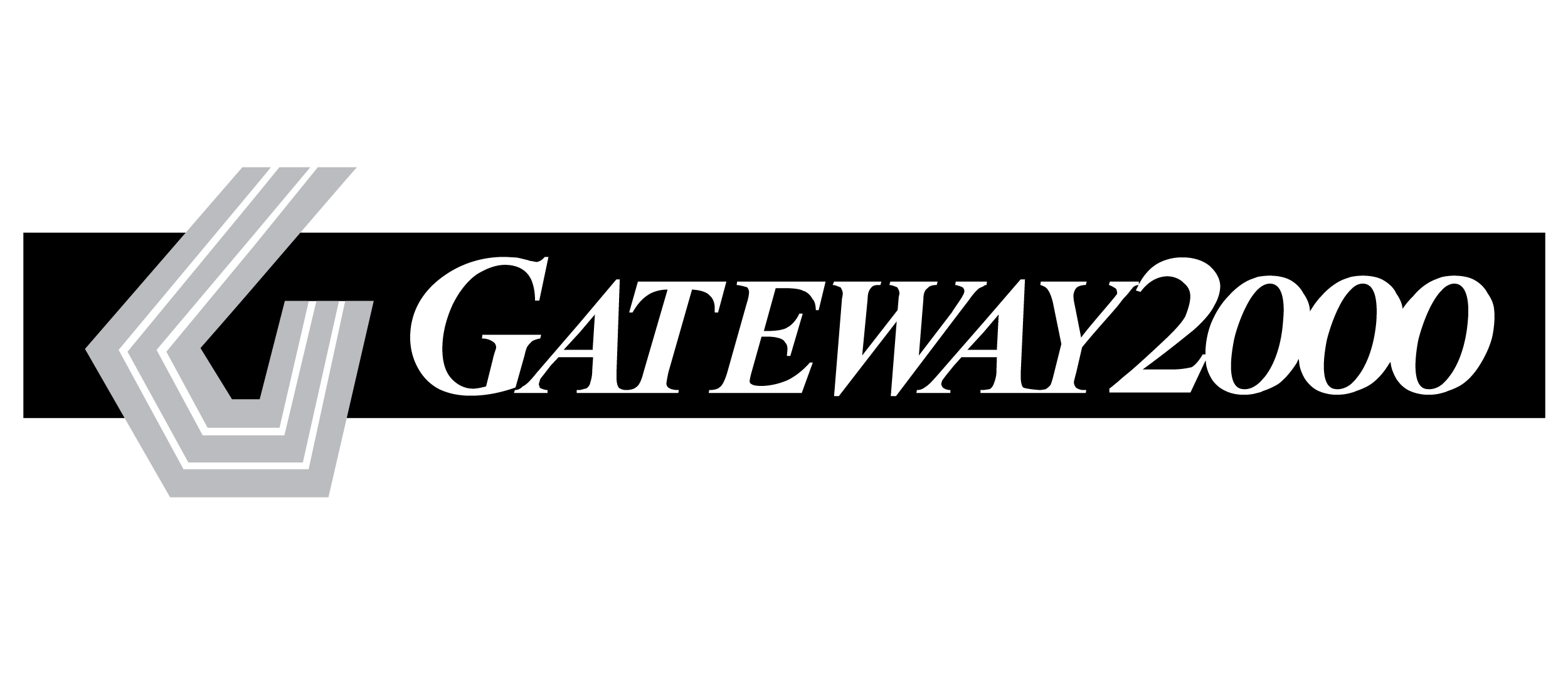 Gateway 2000 logo